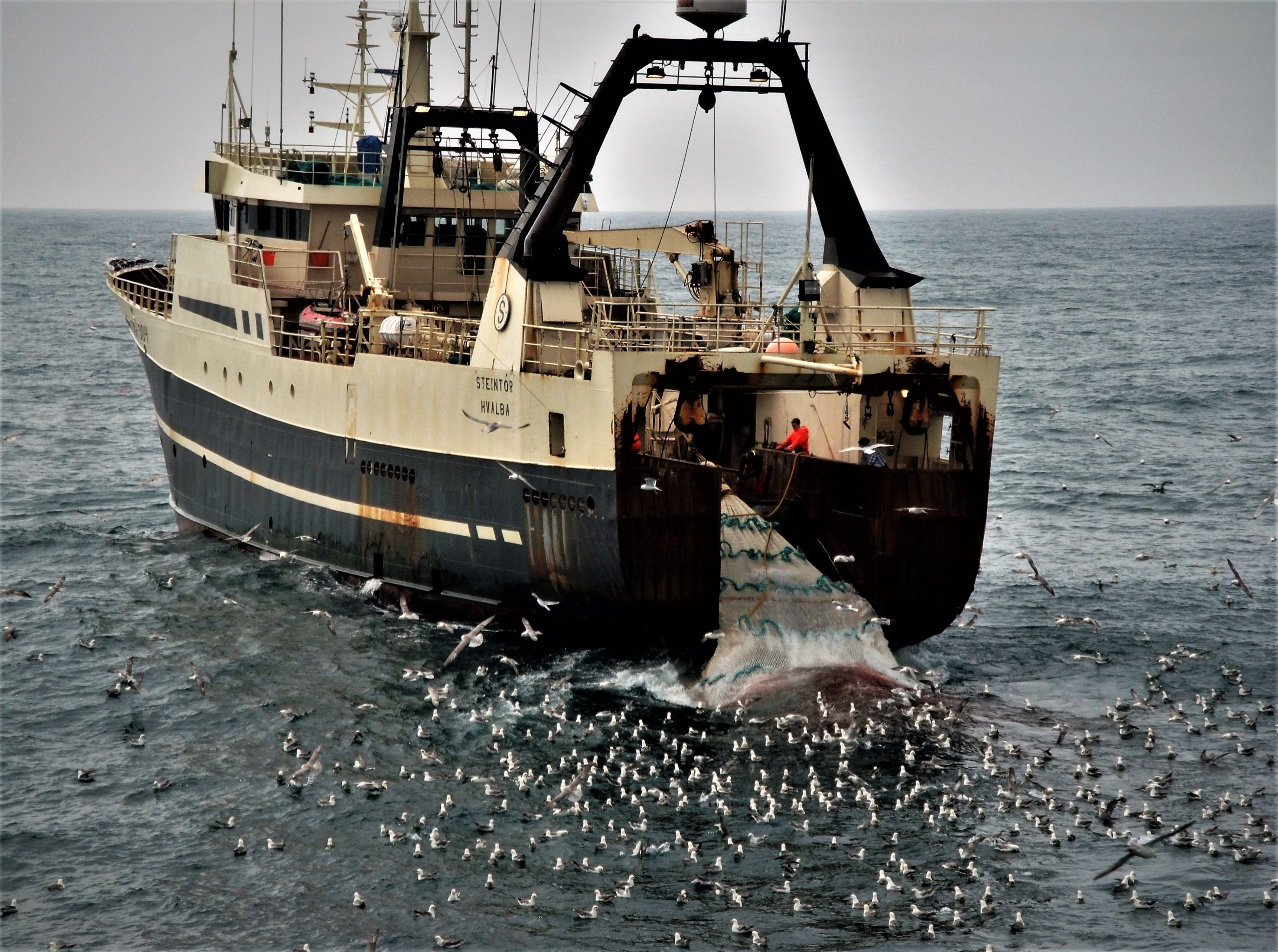 Faroese trawler in action, Faroe Islands